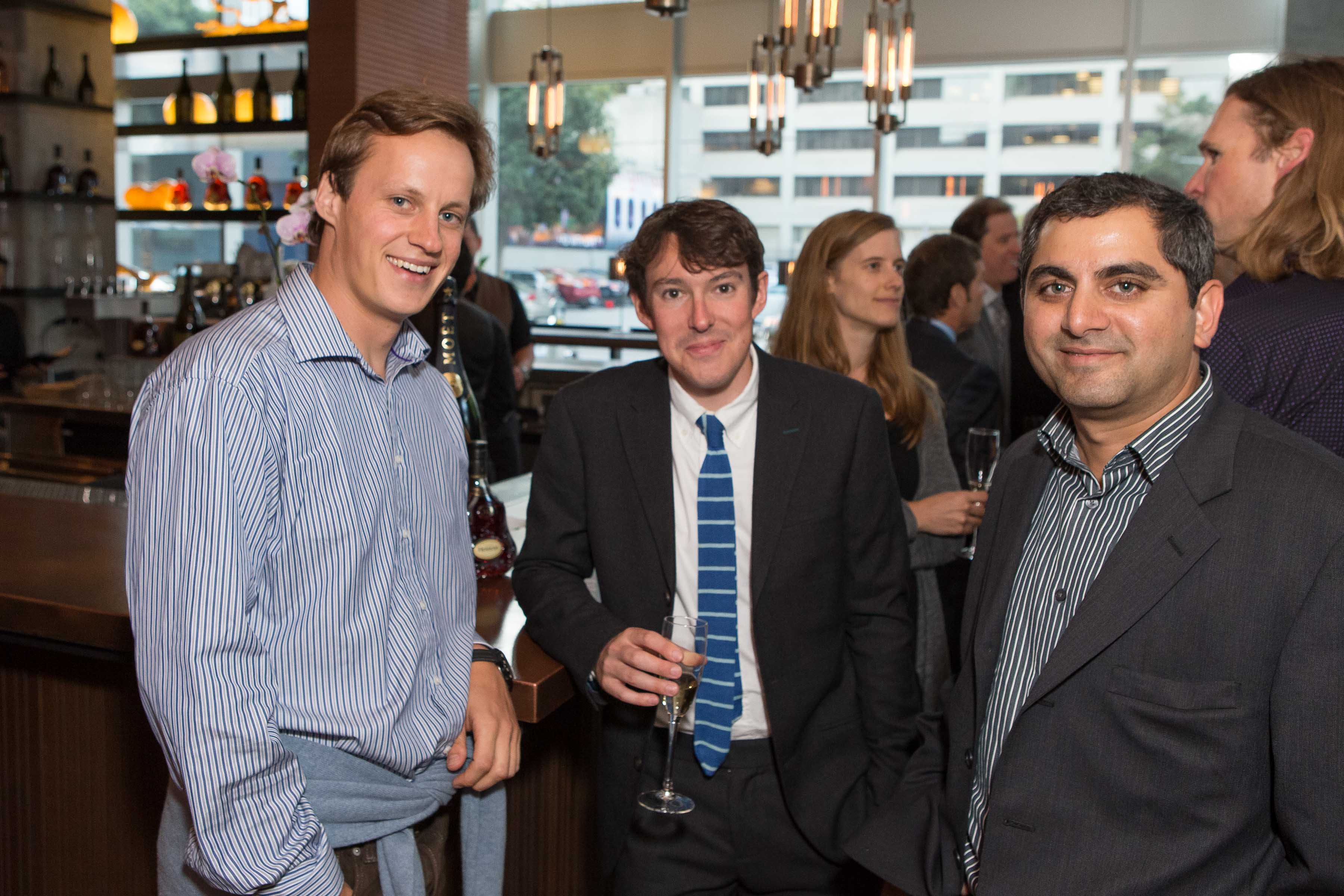 Photo credit: Drew Altizer photography